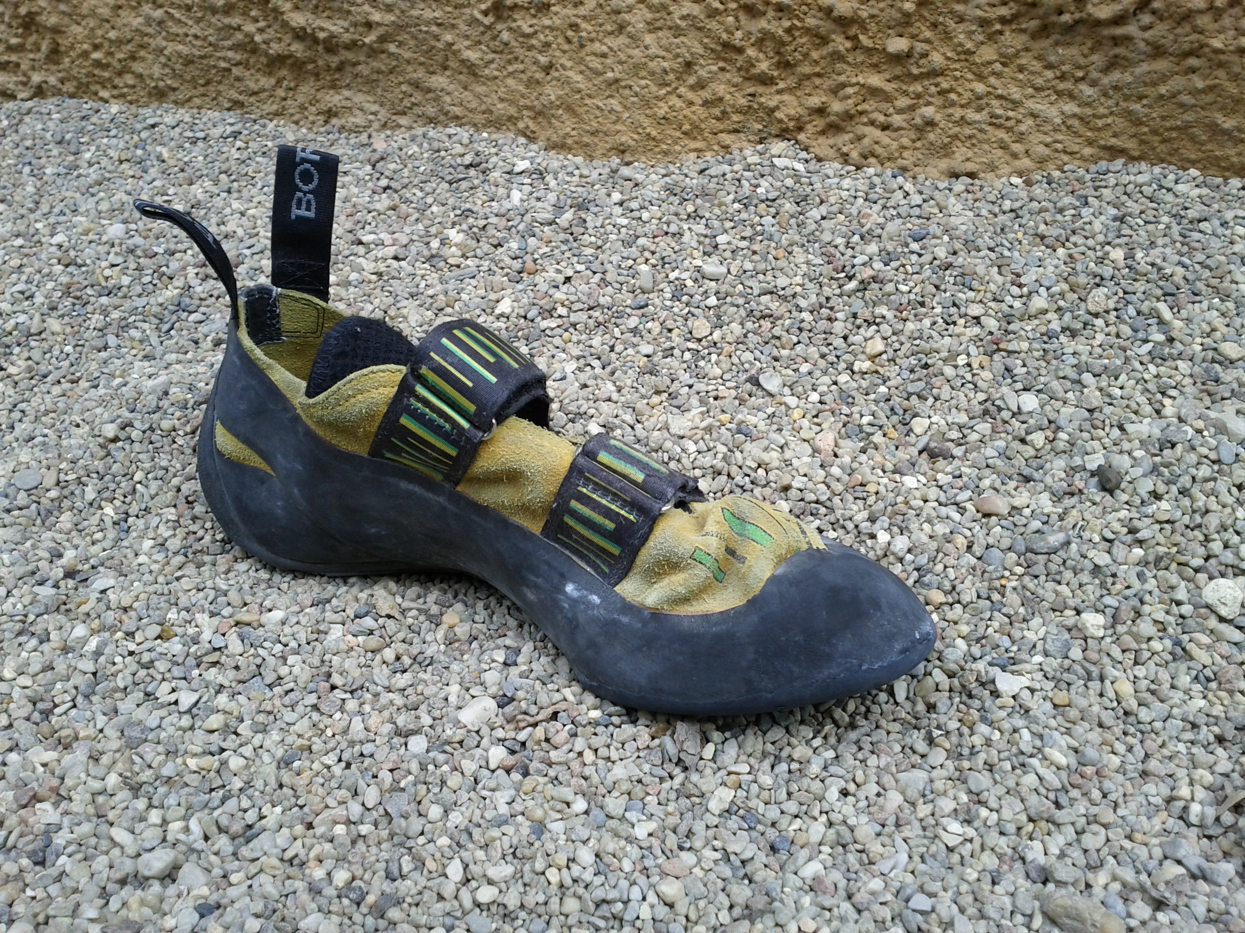 Fall protection gravel mixed size 2-8 mm at climbing tower, climbing shoe for comparison